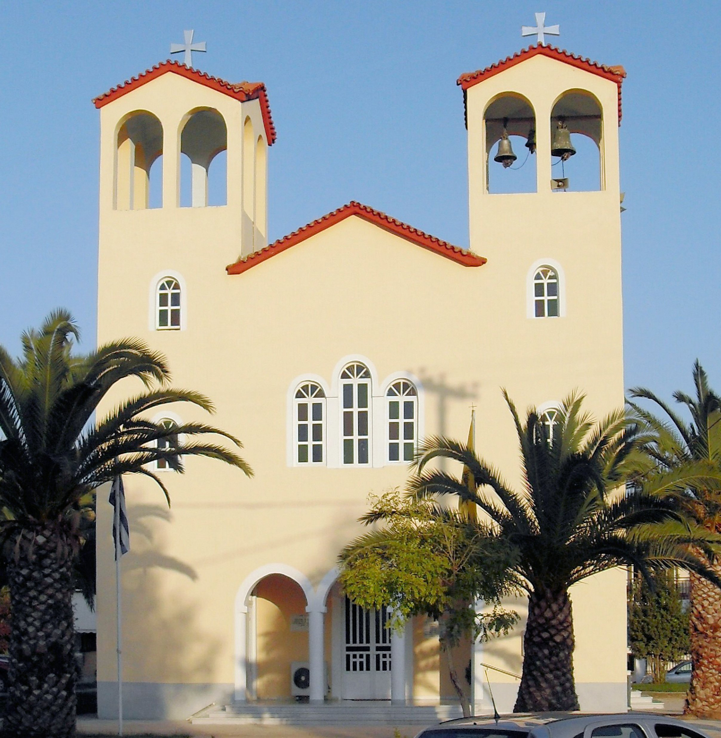 Foinikounta church, Methoni village, municipality of Pylos–Nestoras